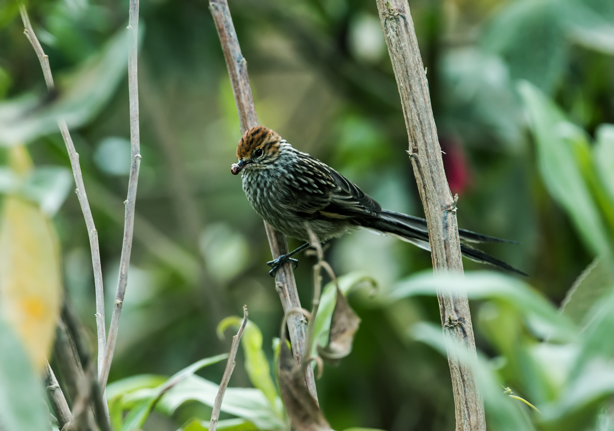 Rusty-crowned Tit-Spinetail from Otuzco, Cajamarca, Peru. Subspecies: cajabambae